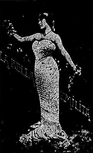 Presentation Post in Theatro Garrett, Póvoa de Varzim, Portugal of an Artist from Companhia das Variedades, Aguia D'Ouro, Porto, Portugal